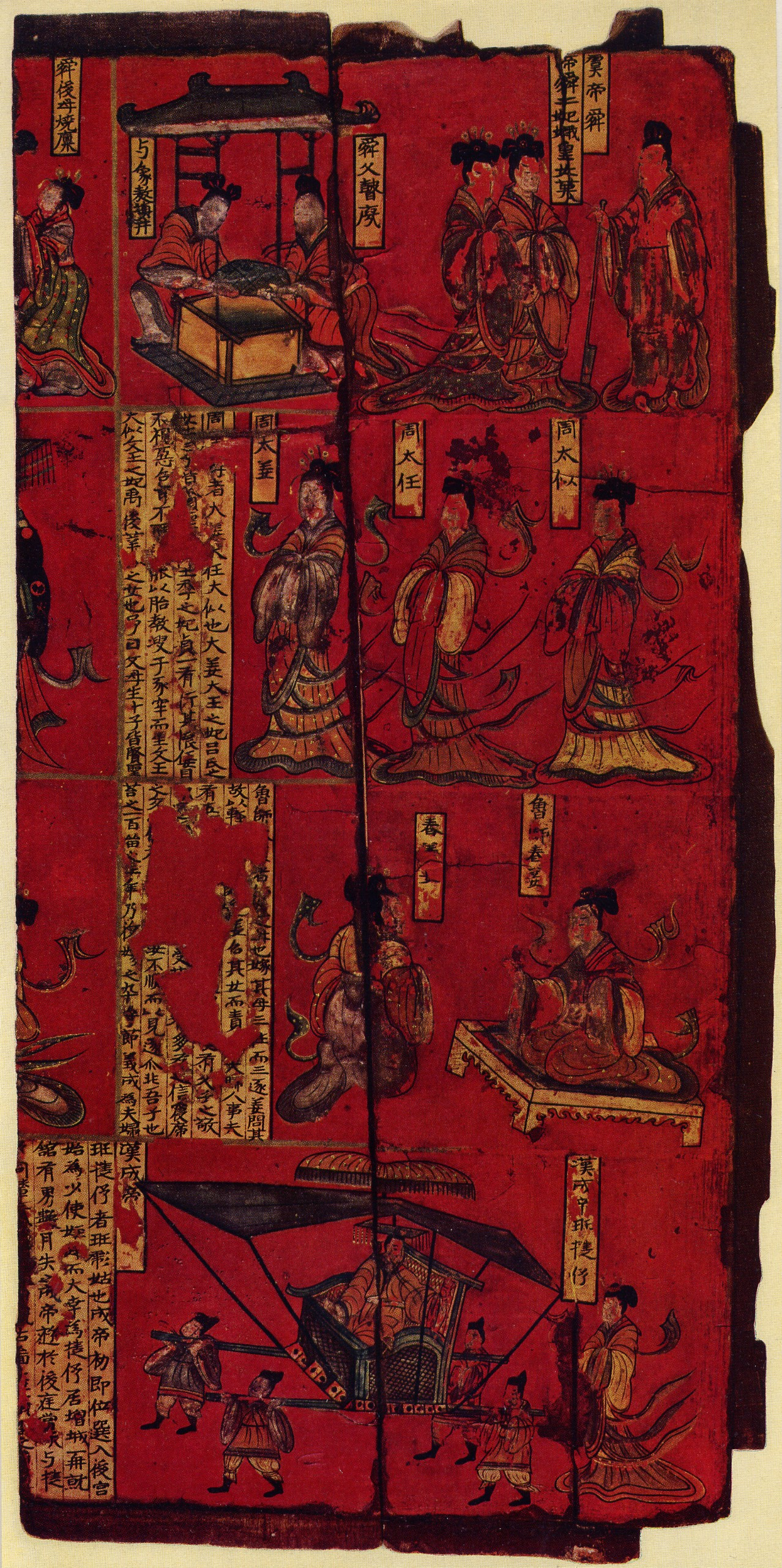 Lacquer painting on wood from Datong dated to the Northern Wei dynasty (386-534).